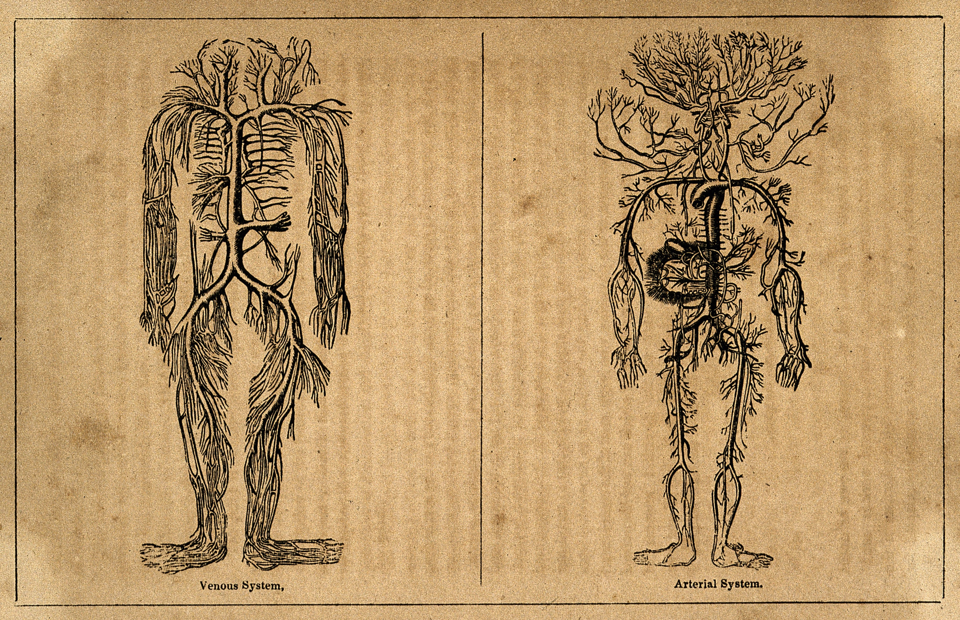 The human venous and arterial systems. Engraving, after engravings by M. Vandergucht after W. Cowper of 1702 and 1707. Iconographic Collections Keywords: Michael van der Gucht; William Cowper; Giovanni Leoni; Jean Le Rond d' Alembert; John Evelyn; Denis Diderot